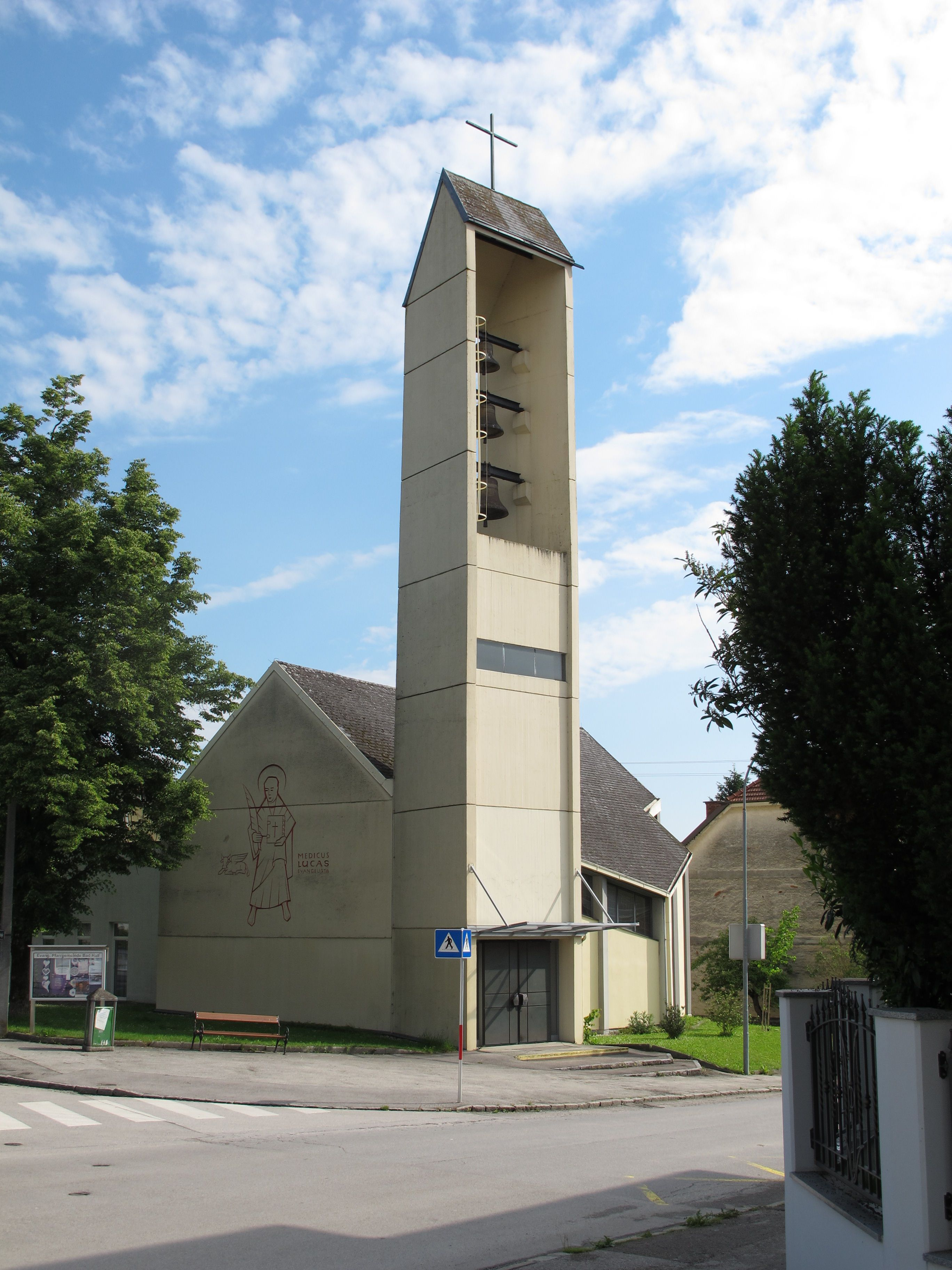 Church Bad Hall